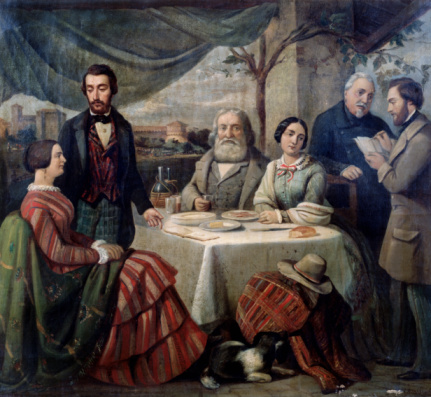 Title: Meeting with Garibaldi by Carlo-Felice Biscarra Caption: 1825 Creative image #: 91845217 Photographer: SuperStock Collection: SuperStock Credit: SuperStock Max file size/dimensions/dpi: 80.8 MB - 5540 x 5100 px (46.91 x 43.18 cm) - 300 dpi - RGB Download file size may vary. Release information: No release, but release may not be required. More information Keywords: People, Food and Drink, Formal, Chair, Table, Bottle, Hat, Horizontal, Full Length, Indoors, Tablecloth, Standing, Sitting, Writing, Voice, Dog, Day, Meeting, Adult, Fine Art Painting, Art And Craft, Art, Colour, Illustration and Painting, Mixed Age Range, One Animal, Meal, Group Of People, Medium Group Of People, Men, Women, Pets, 19th Century Style, Adults Only, Horizon Over Land, Giuseppe Garibaldi.